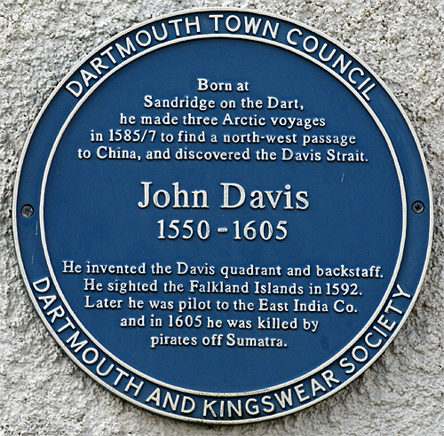 John Davis or Davys (c. 1550 – 29 December 1605) was one of the chief English navigators and explorers under Elizabeth I. He led several voyages to discover the Northwest Passage, served as pilot and captain on both Dutch and English voyages to the East Indies. He discovered the Falkland Islands in August 1592.